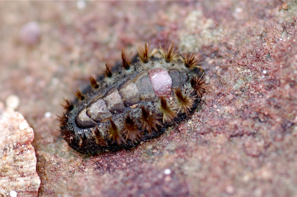 Acanthochiton garnoti in situ